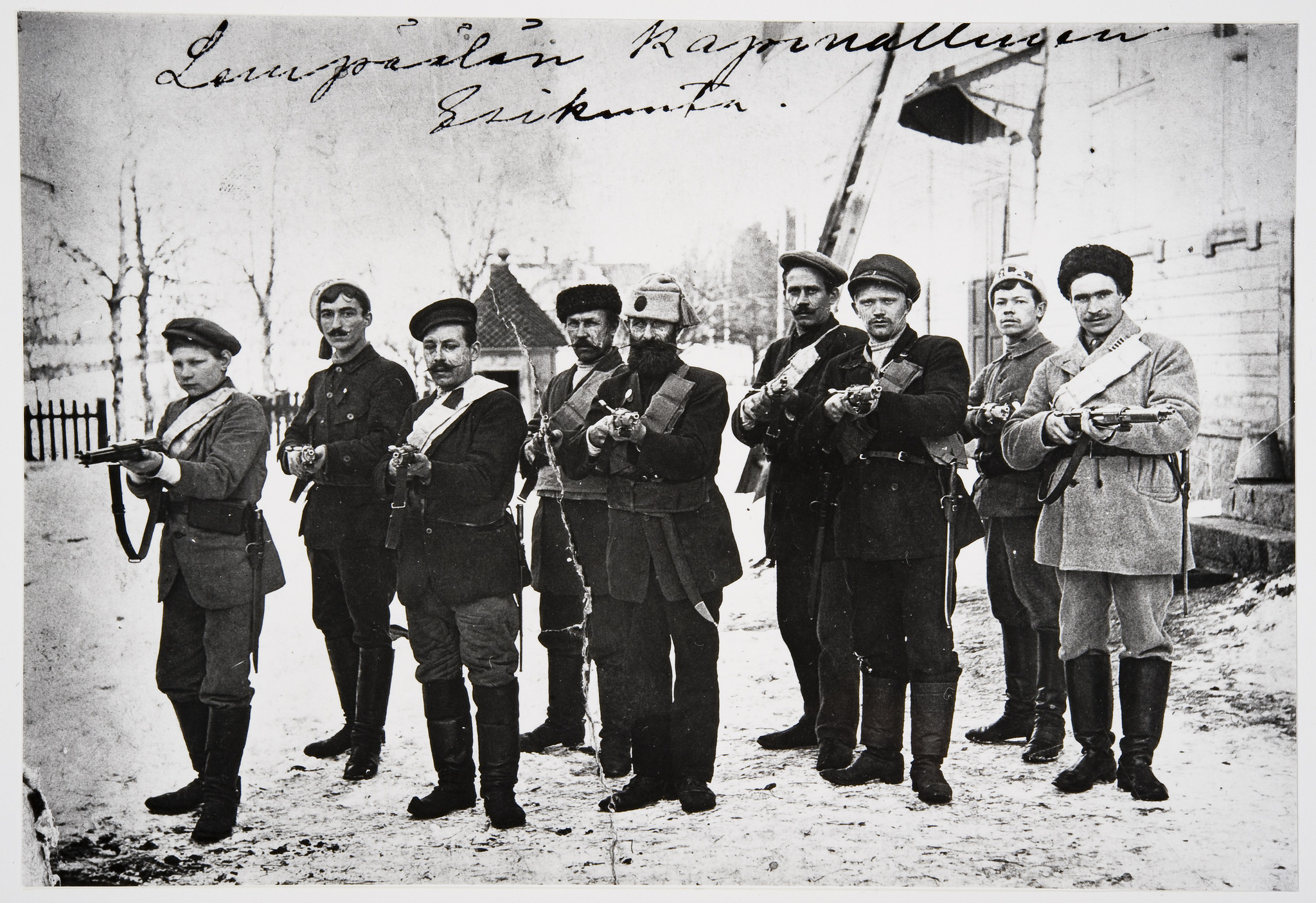 Members of Lempäälä Red Guard